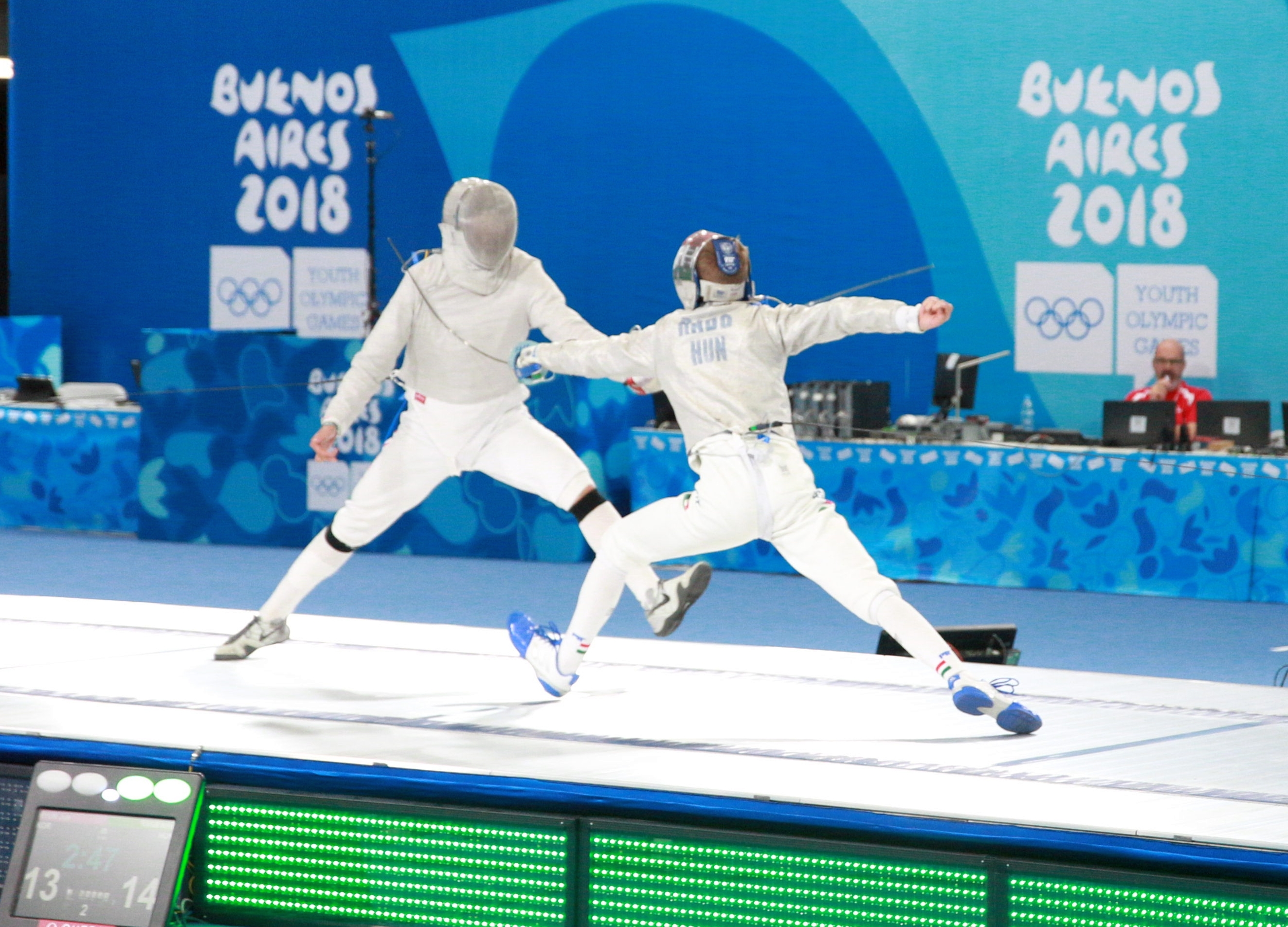 Fencing at the 2018 Summer Youth Olympics at 7 October 2018 – Boys' sabre Gold medal match – Krisztián Rabb (HUN) Vs Hyun Jun (KOR) (USA) 15:13